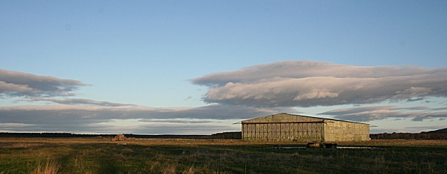 Hangar at RAF Milltown The shape of the hangar seems to be echoed by the shape of the clouds above it.